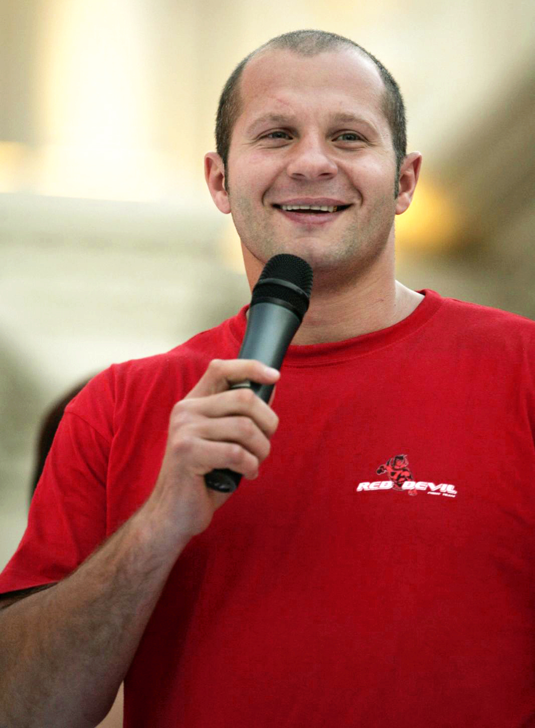 Fedor Emelianenko during a 10-minute workout at the Caesars Palace's Roman Plaza on October 19, 2006.